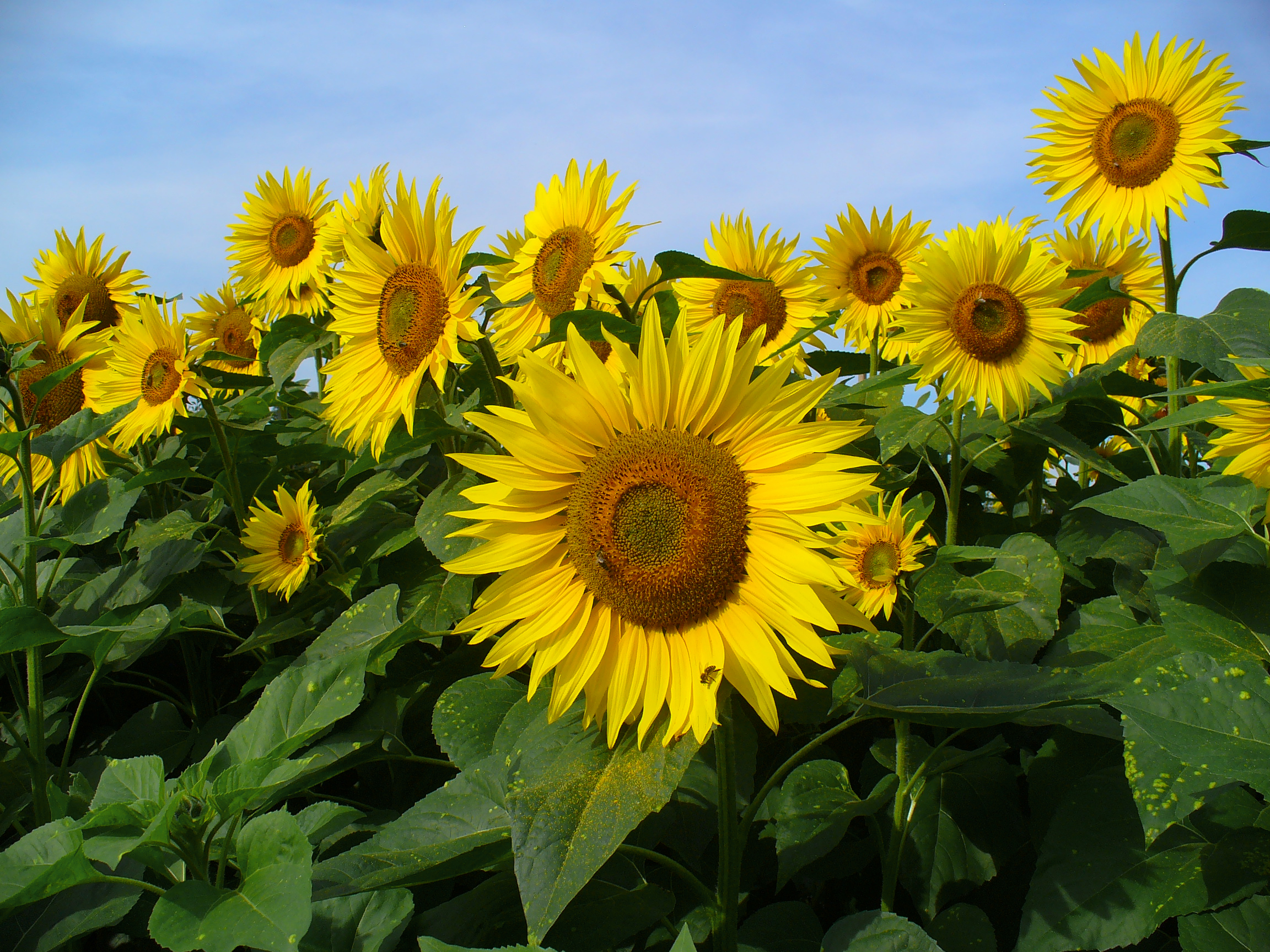 Helianthus annuus, Asteraceae, Sonnenblume, Inflorescences; Karlsruhe, Germany.